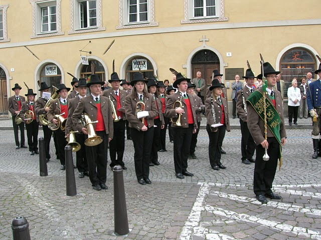 Salinenmusikkapelle Hall in Tirol in Straubtracht